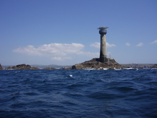 Longships Lighthouse. With the cliffs of Lands End behind.